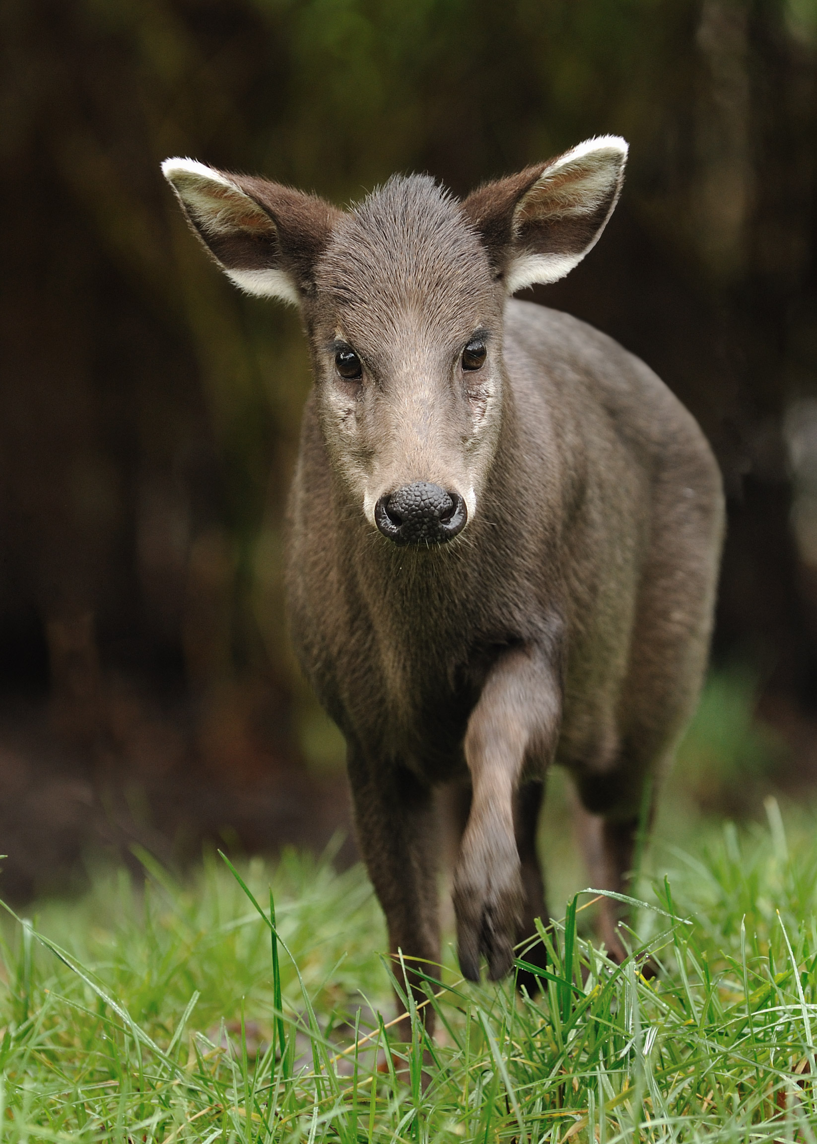 Tufted Deer (Elaphodus cephalophus), mature female